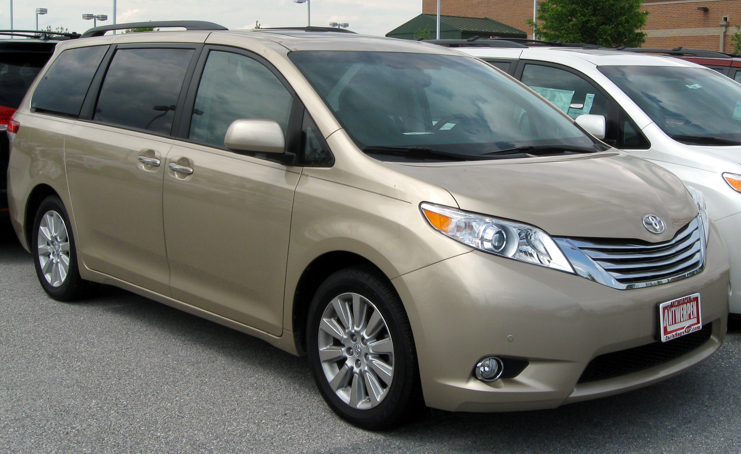 2011 Toyota Sienna photographed in Clarksville, Maryland, USA.